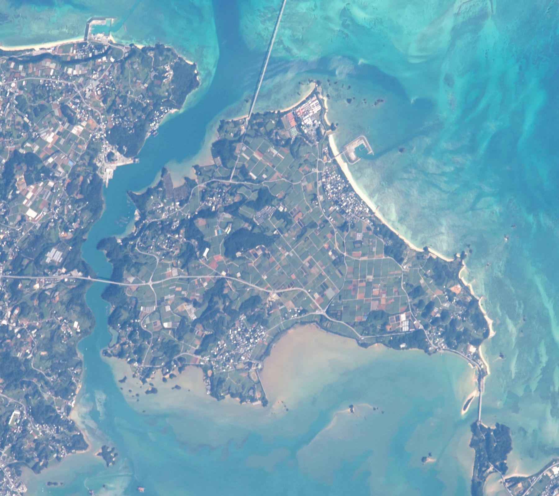 Yagaji Island, Nago, Okinawa prefecture, Japan.